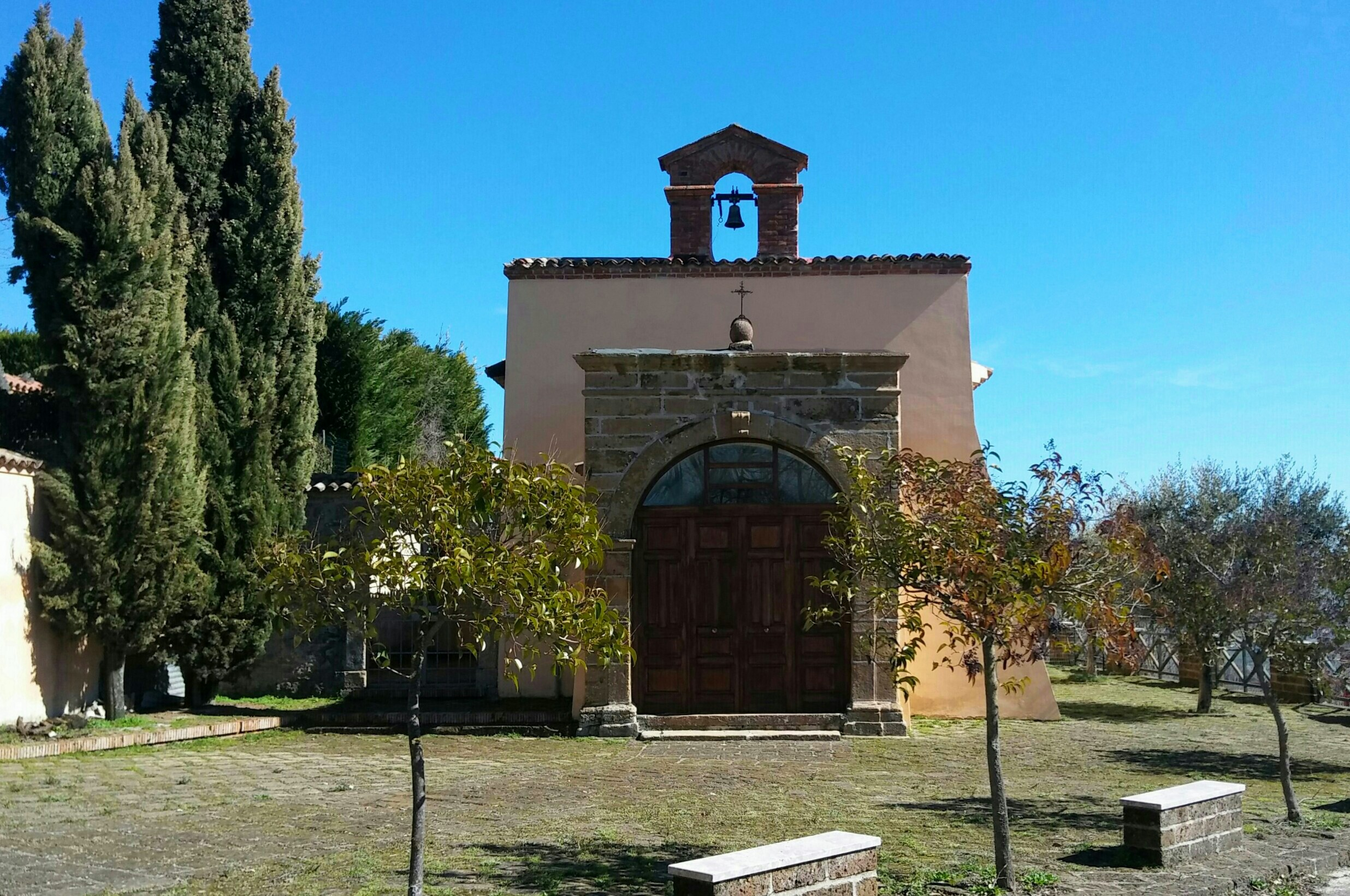 Our Lady of Loreto, Ariano Irpino, Italy